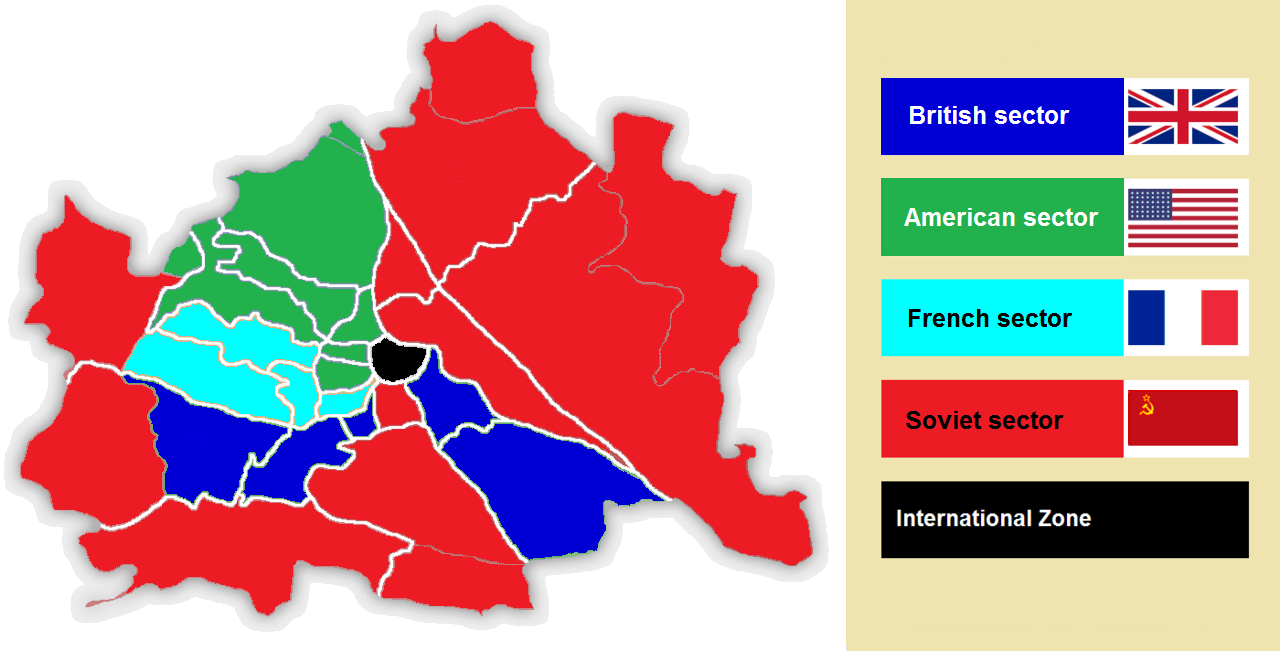 Allied sectors in Vienna (1945-1955)